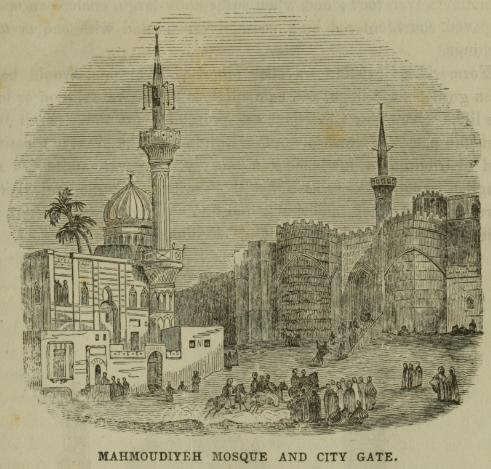 Book illustration, pen drawing